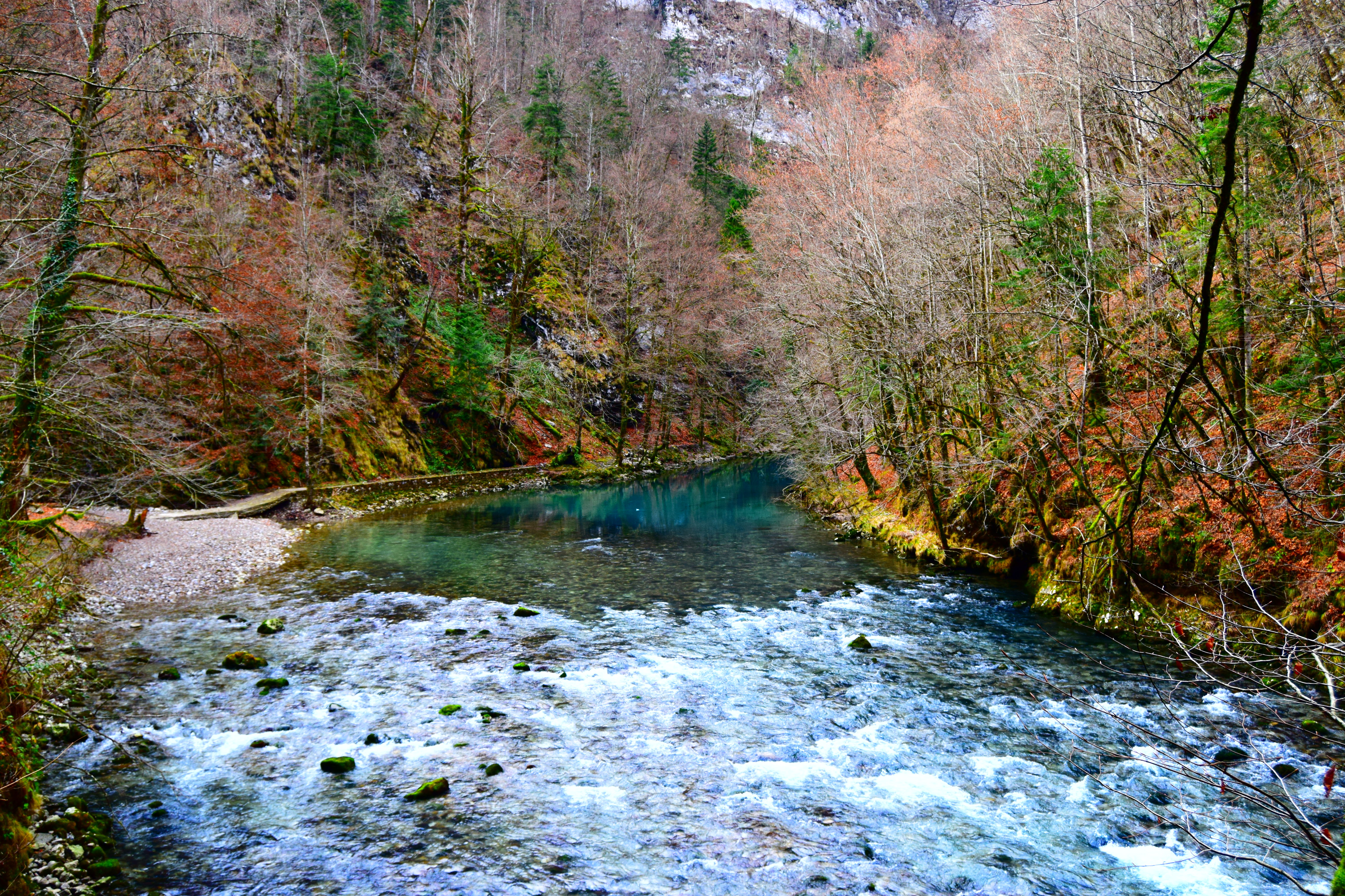 The spring of river Kupa in Risnjak National Park. This is a a photo of a natural area in Croatia with ID: NP07